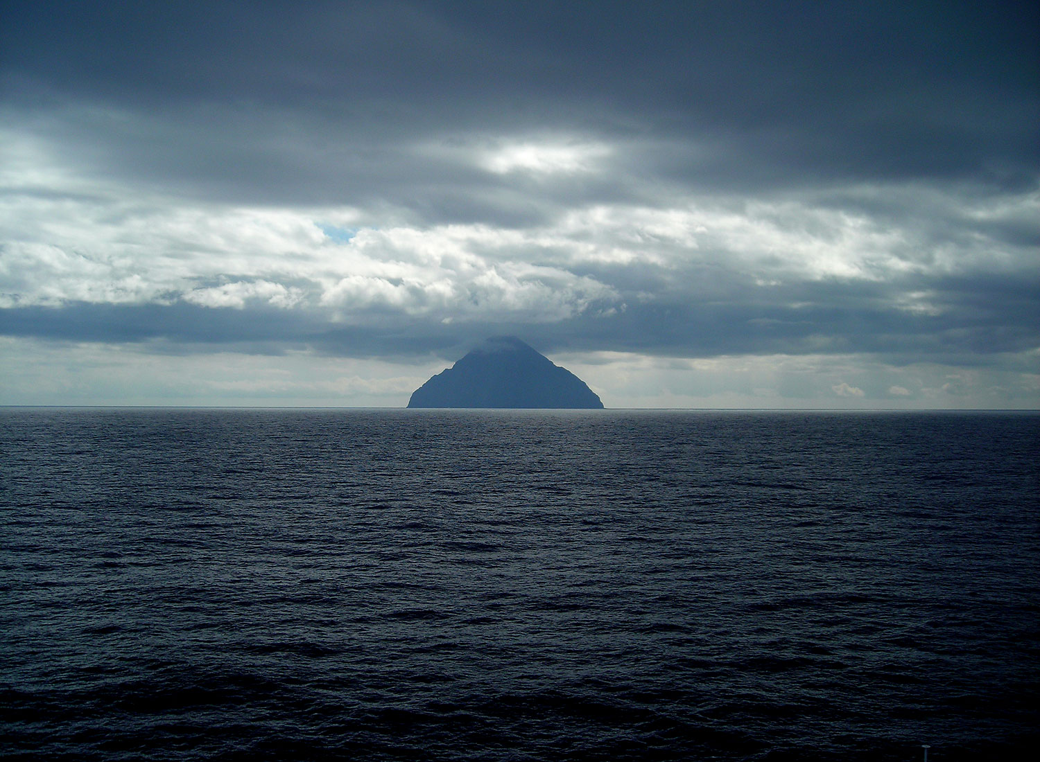 Southern Iwo Jima island (Minami-Iōtō), Volcano Islands, Japan